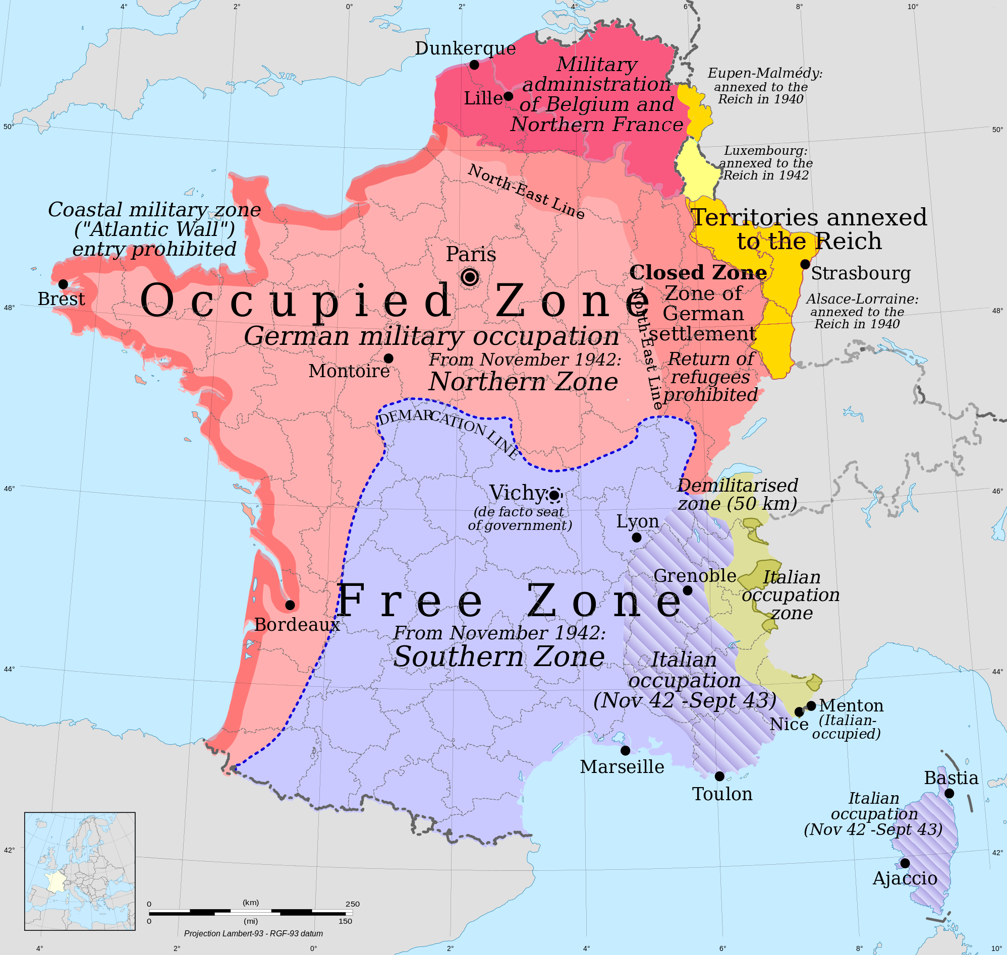 Occupation zones of France, Belgium and Luxembourg during the Second World War